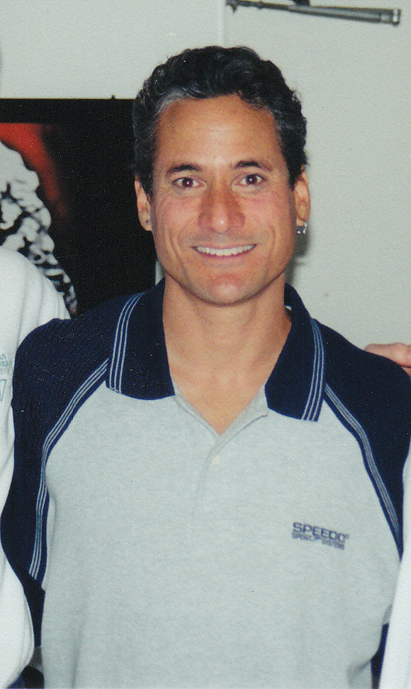 Gay Olympic gold-medal winning diver Greg Louganis